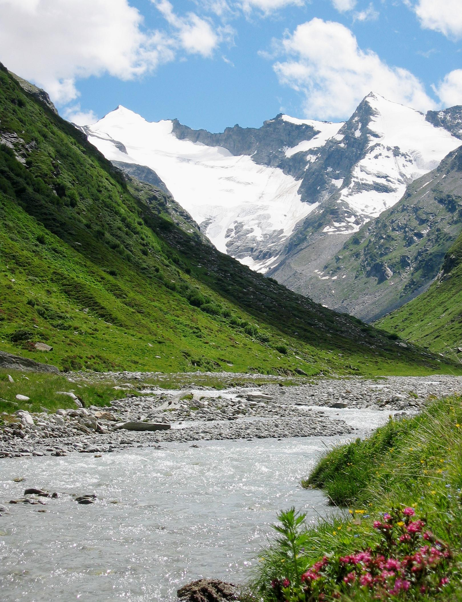 The Länta, valley of the Valser Rhein, near Vals in Graubünden. The high summits in the background are the 3400 m high Rheinwaldhorn and the Grauhorn (Ticino border).